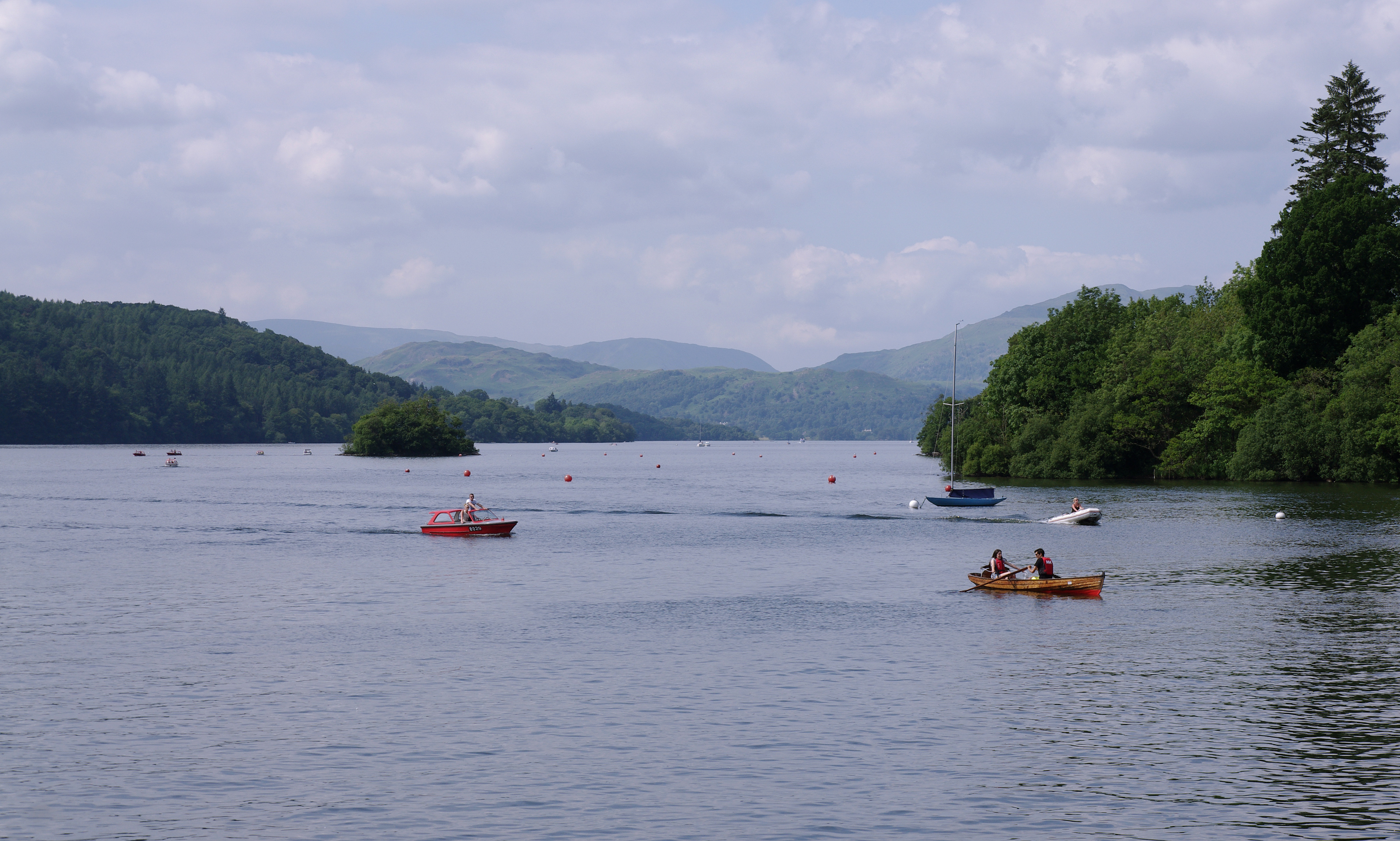 Looking north over Lake Windermere.